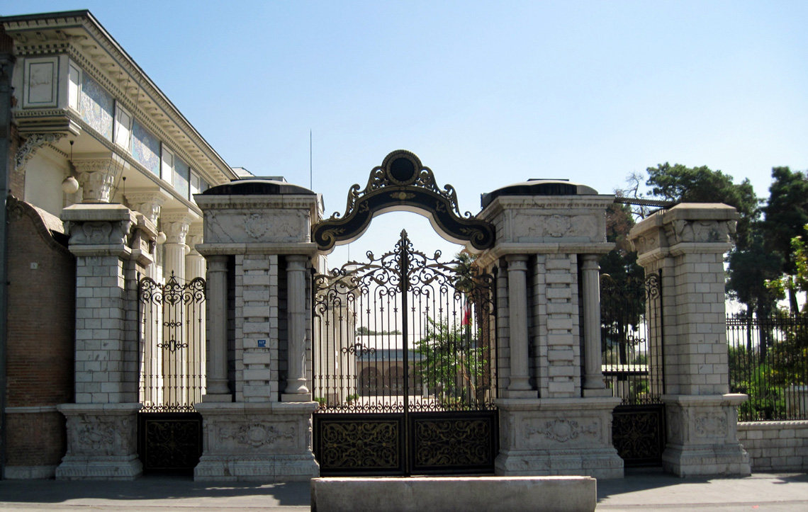 Baharestan - Tehran - Assembly